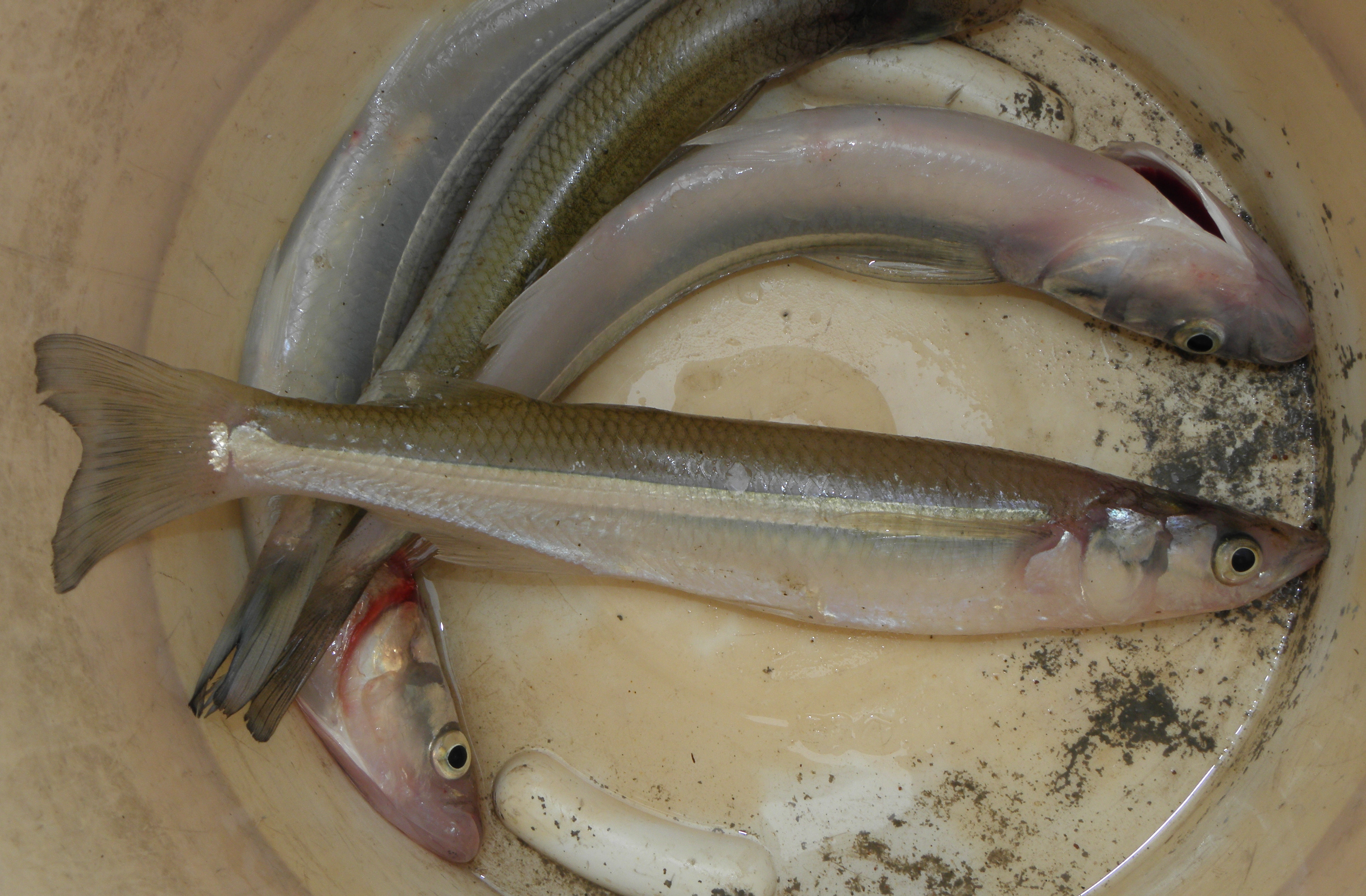 Argentinian silverside (Odontesthes bonariensis).